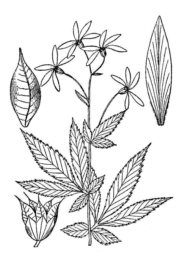 A line drawing of Gillena stipulatus from Britton & Brown 1913